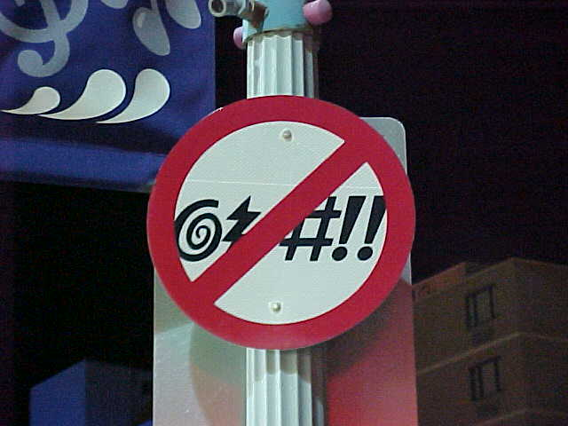 "No Swearing" sign along Atlantic Avenue in Virginia Beach, Virginia.